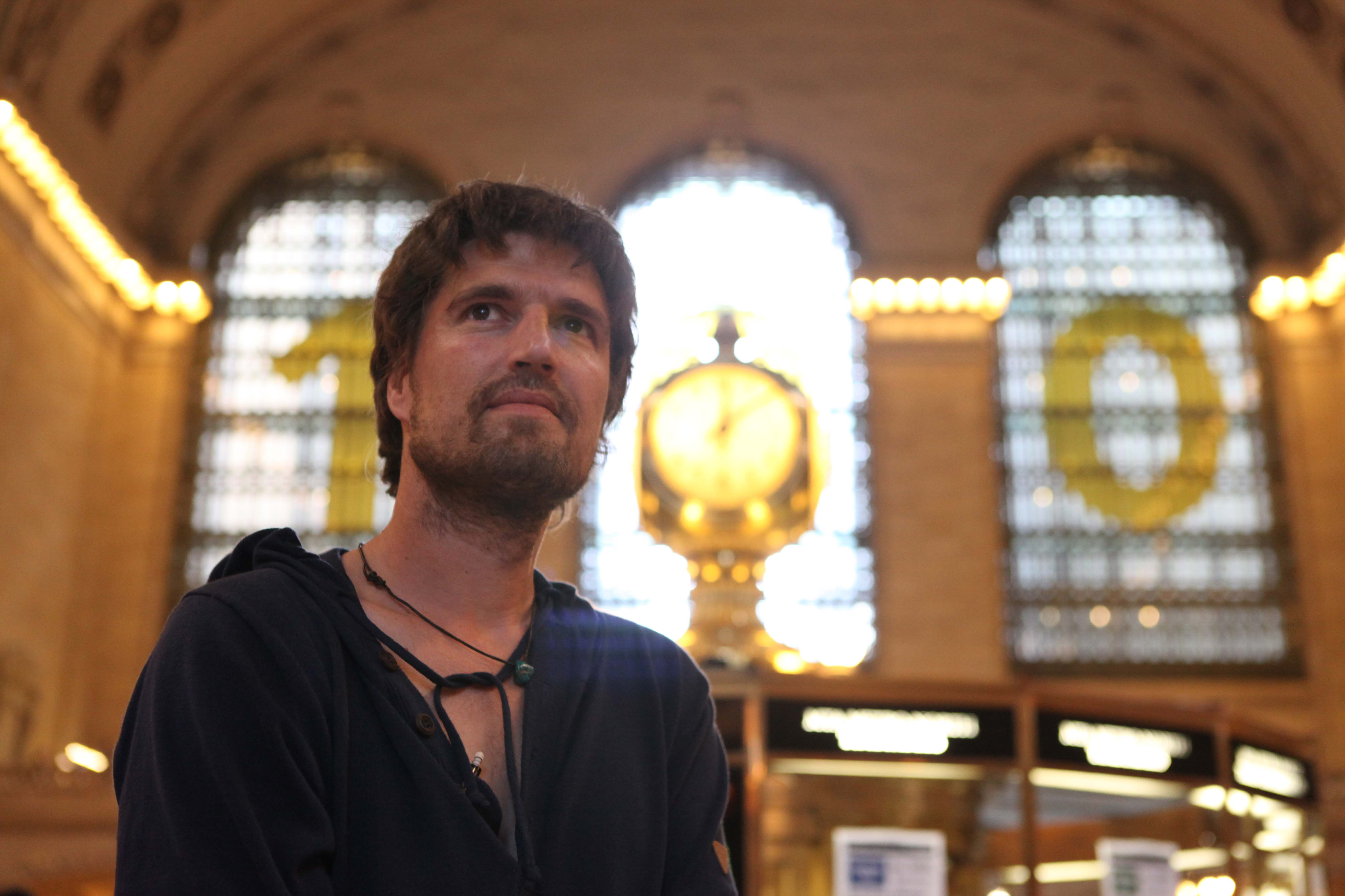 Documentarymaker Marijn Poels August 2013 in New-York